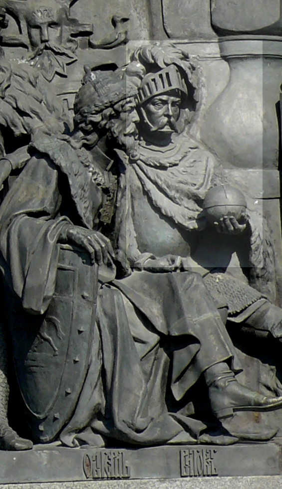 Vytautas the Great on the Monument «Millennium of Russia» in Veliky Novgorod